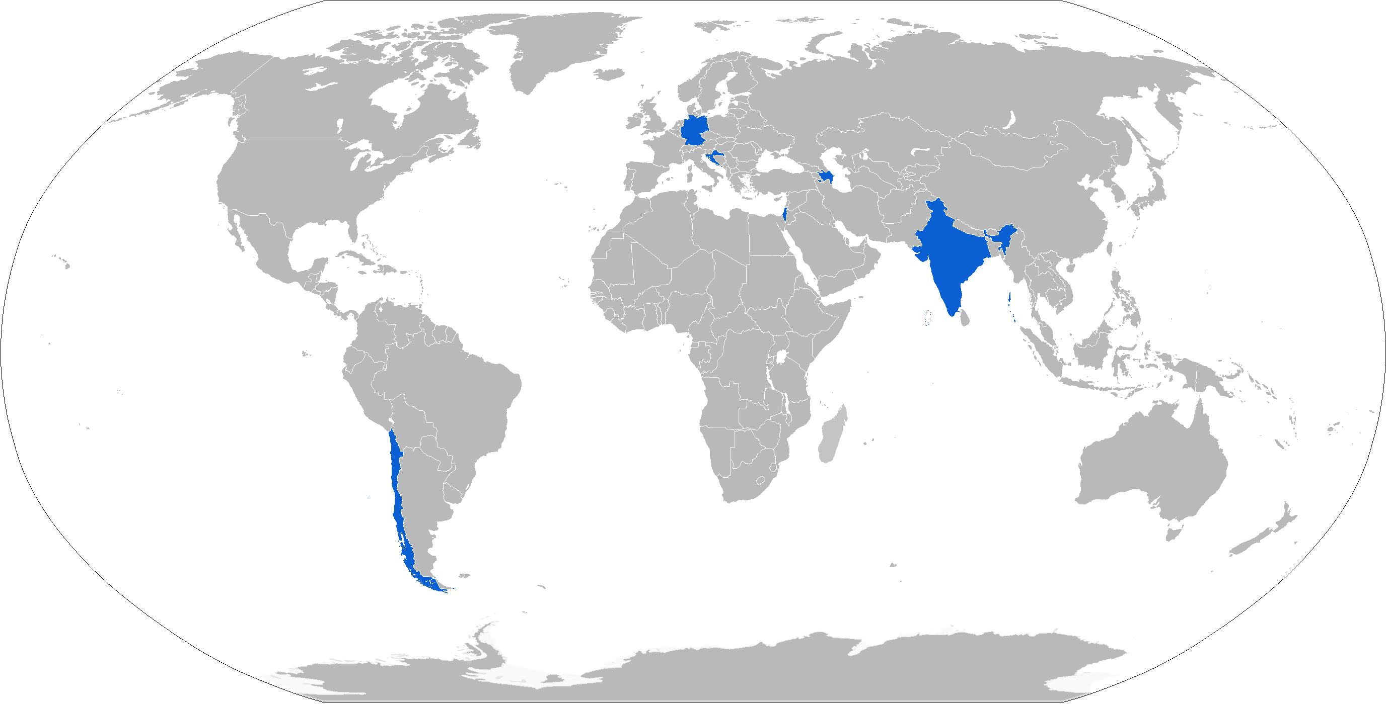 Map of LAHAT operators in blue